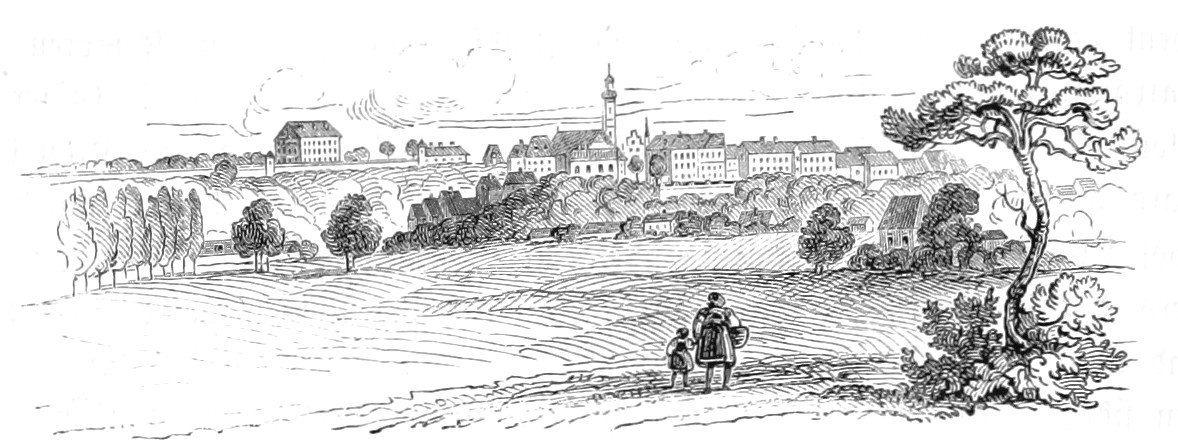 Image extracted from page 120 of above (page number relates to the digital version and can differ from the pagination within the book). Original held and digitised by the British Library. Note: The colours, contrast and appearance of these illustrations are unlikely to be true to life. They are derived from scanned images that have been enhanced for machine interpretation and have been altered from their originals.